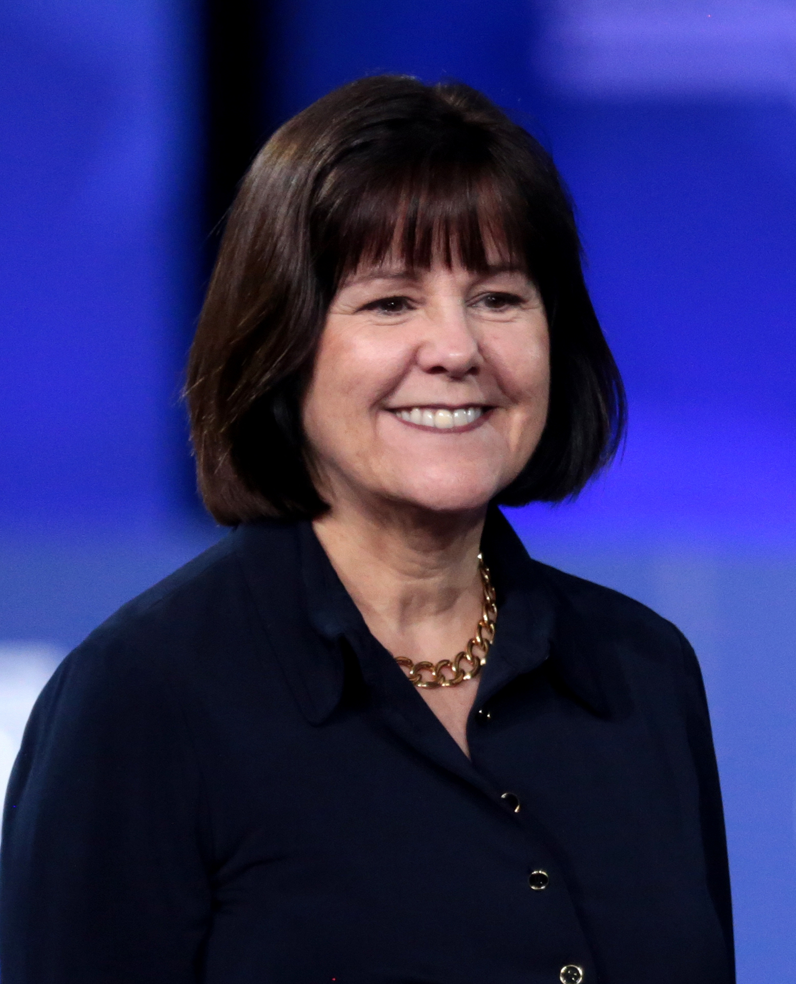 Second Lady Karen Pence and Vice President of the United States Mike Pence speaking at the 2017 Conservative Political Action Conference (CPAC) in National Harbor, Maryland.